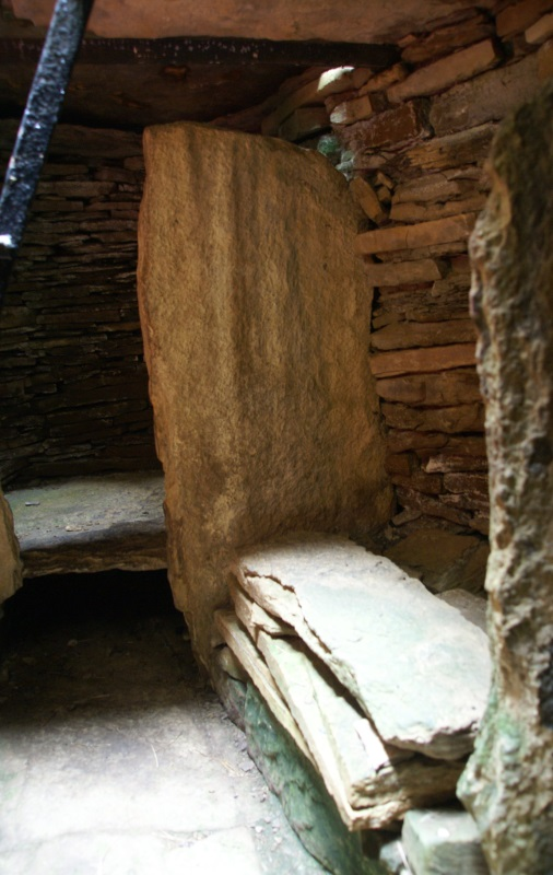 Taversöe Tuick Chambered Cairn, Rousay, Orkney, Scotland. Interior of the lower chamber.